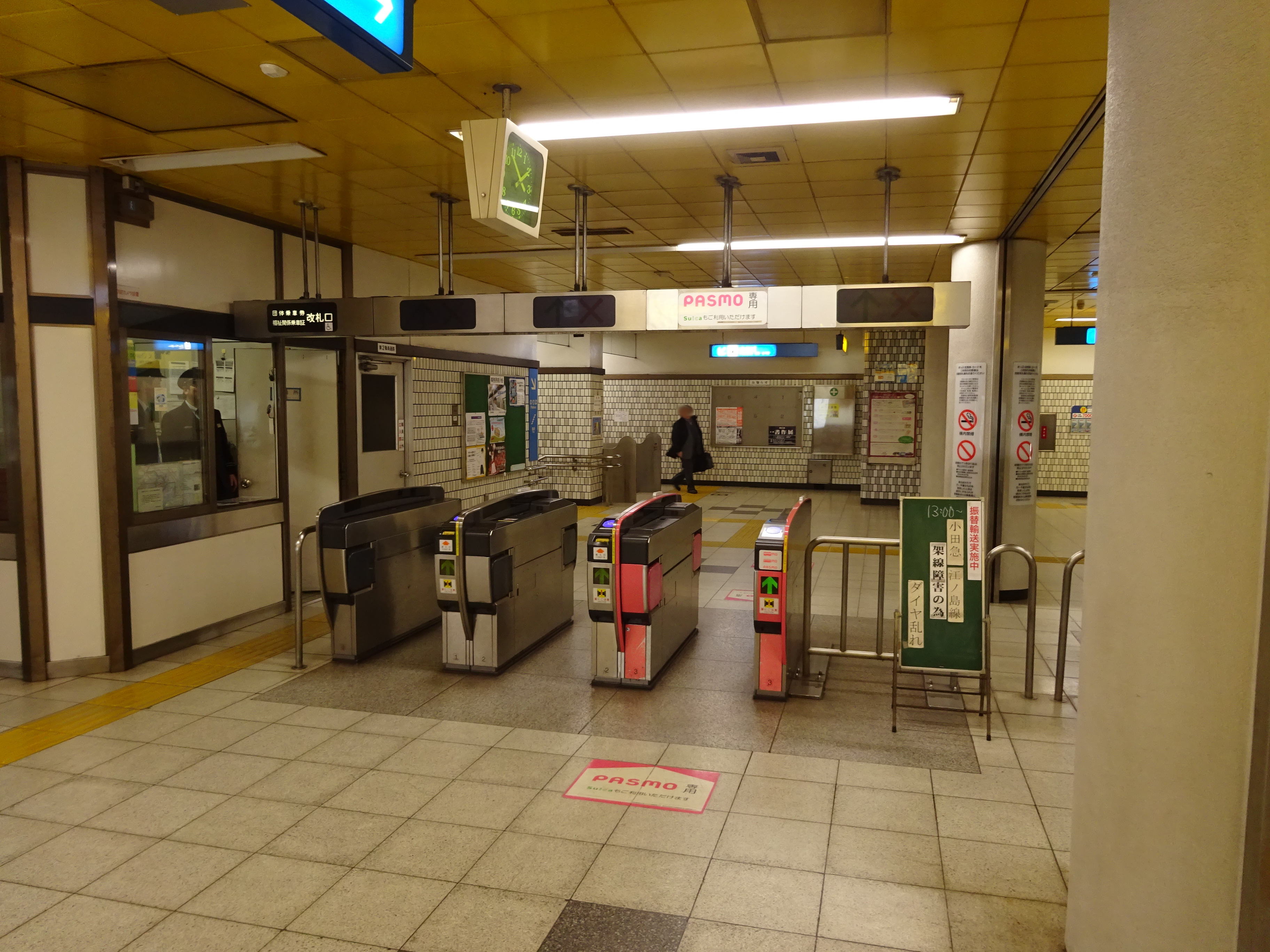 Ticket gate of Katakurachō Station